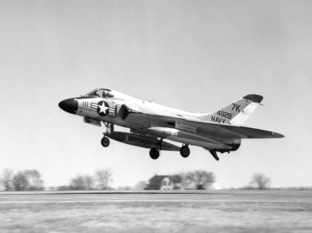 A U.S. Navy Reserve Douglas F-6A Skyray (BuNo 134828) of NARTU Olathe taking off.